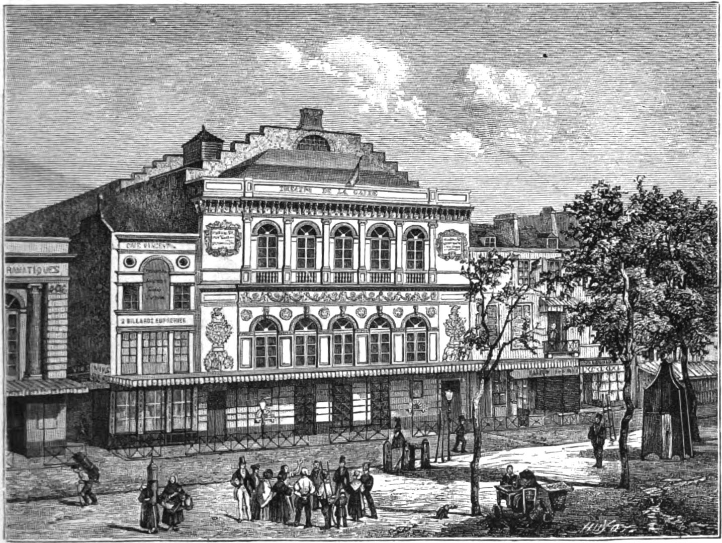 Théâtre de la Gaîté on the Boulevard du Temple. This building was designed by the architect Bourla after the fire of 1835 destroyed the previous theatre. The new construction incorporated an iron frame. The theatre relocated to the Rue Papin in 1862 during Haussmann's modernization of Paris.